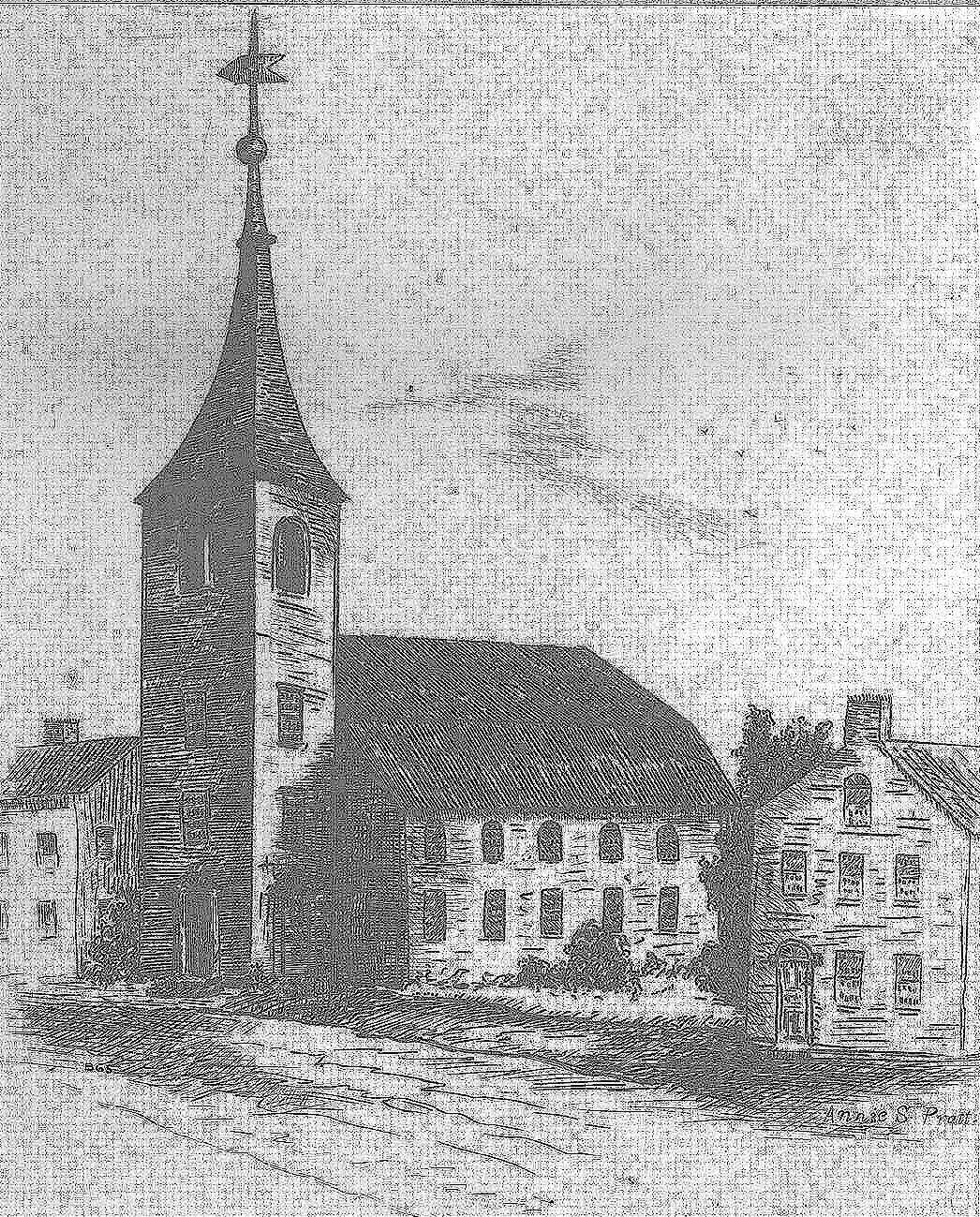 Old North Church in North Square, Boston. Engraver: Pratt, Annie S. 1898 (approximate). Copy photograph from engraving by Annie S. Pratt of the Old North Church in North Square, built in 1677.